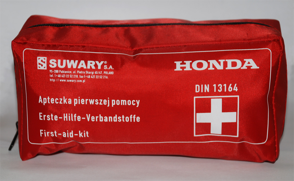 first-aid kit